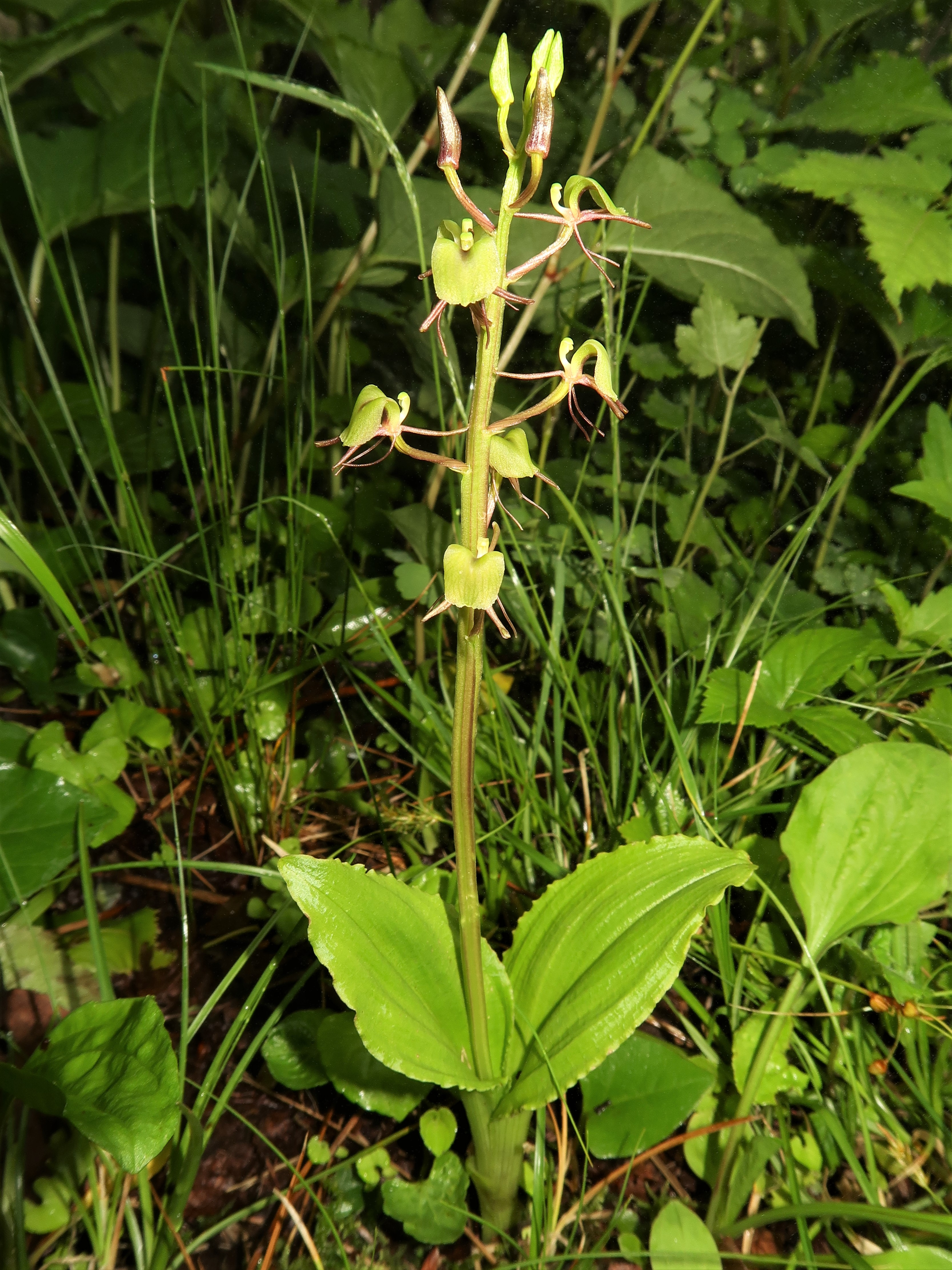 Liparis purpureovittata, Aizu area, Fukushima pref., Japan